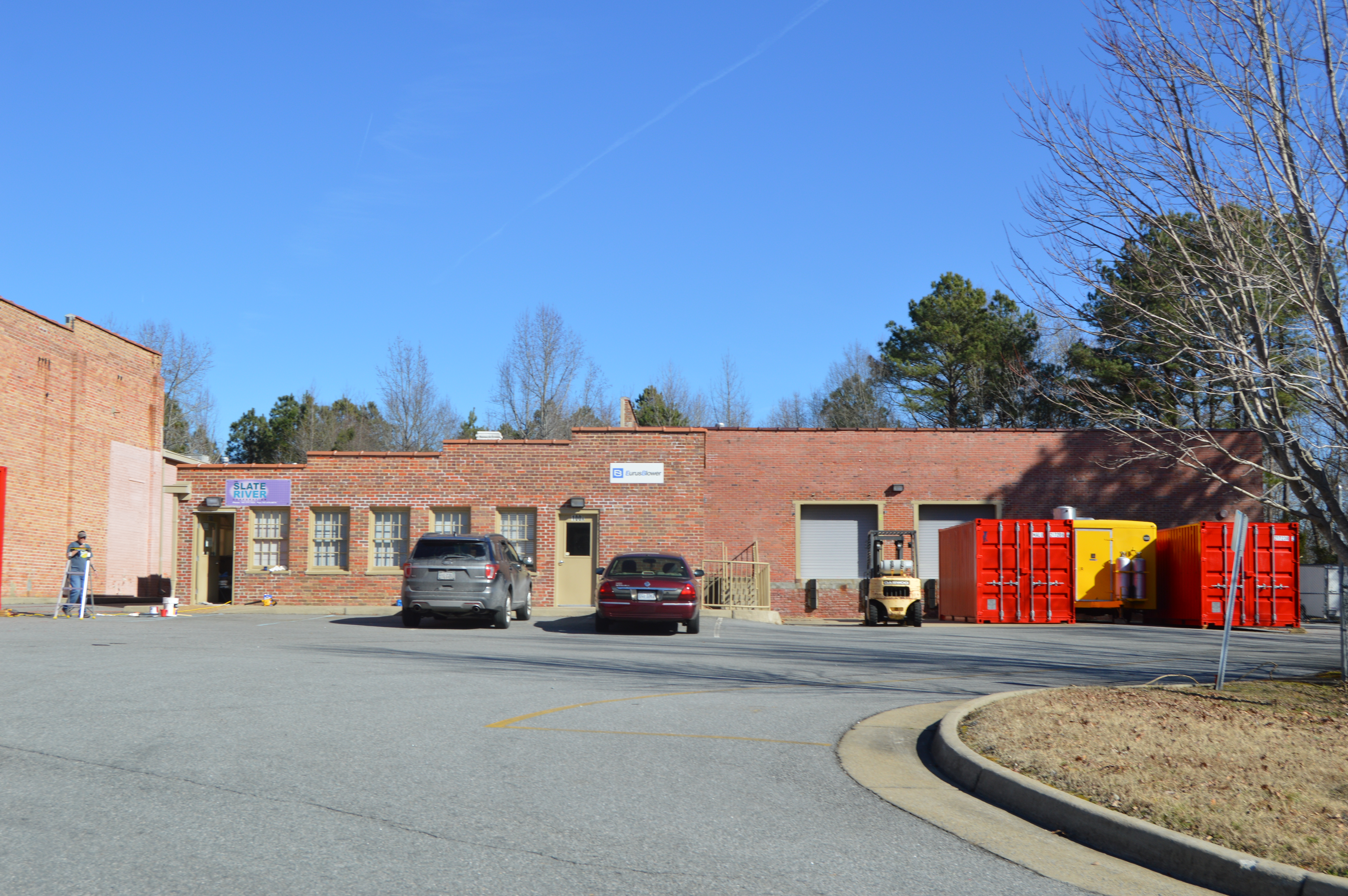 Part of the Joel E. Harrell and Son complex, a ham-processing facility located at 110 Virginia Ham Drive in Suffolk, Virginia, United States. Built in 1941, it is listed on the National Register of Historic Places.